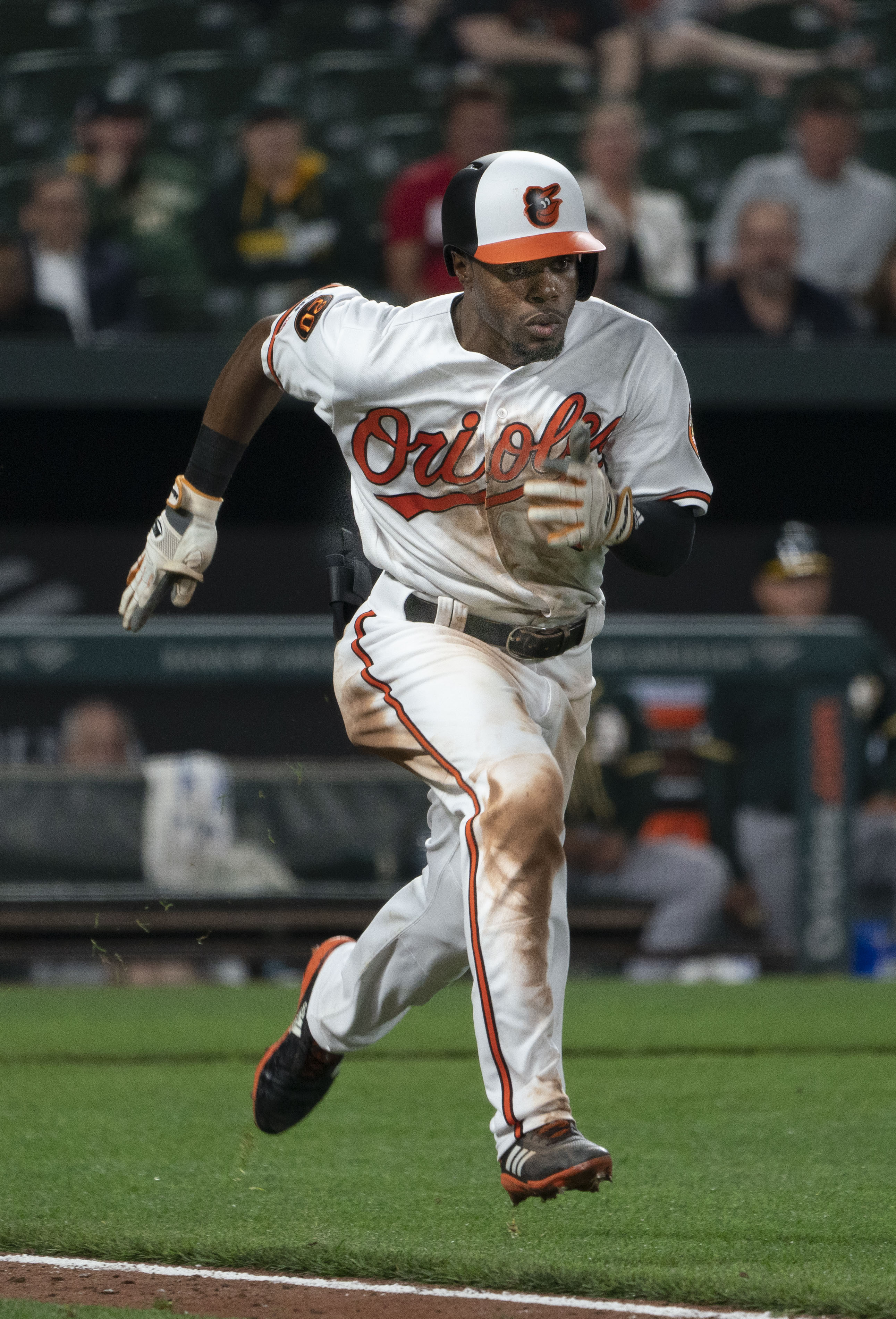 Athletics at Orioles 4/8/19